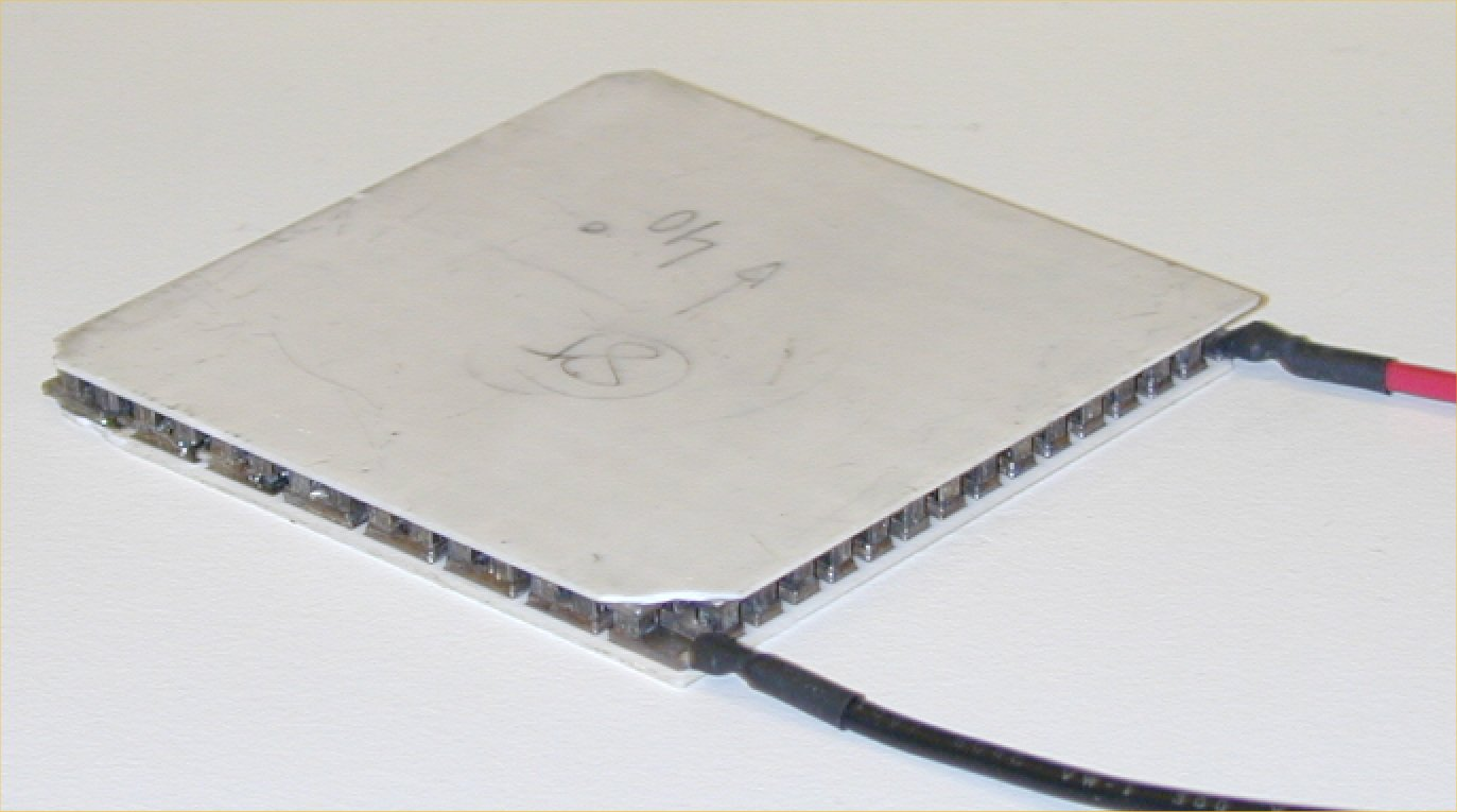 Peltier element (1 V, 1 A) cooling one side, heating the other one